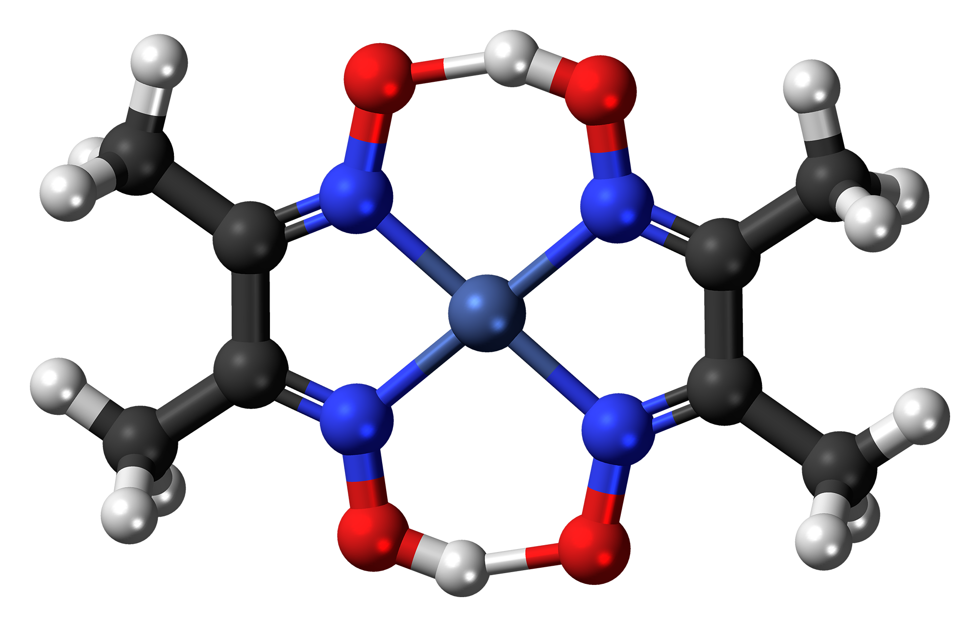 Ball-and-stick model of a complex of nickel in dimethylglyoxime. Color code: Carbon, C: black Hydrogen, H: white Oxygen, O: red Nitrogen, N: blue Nickel, Ni: grey-blue